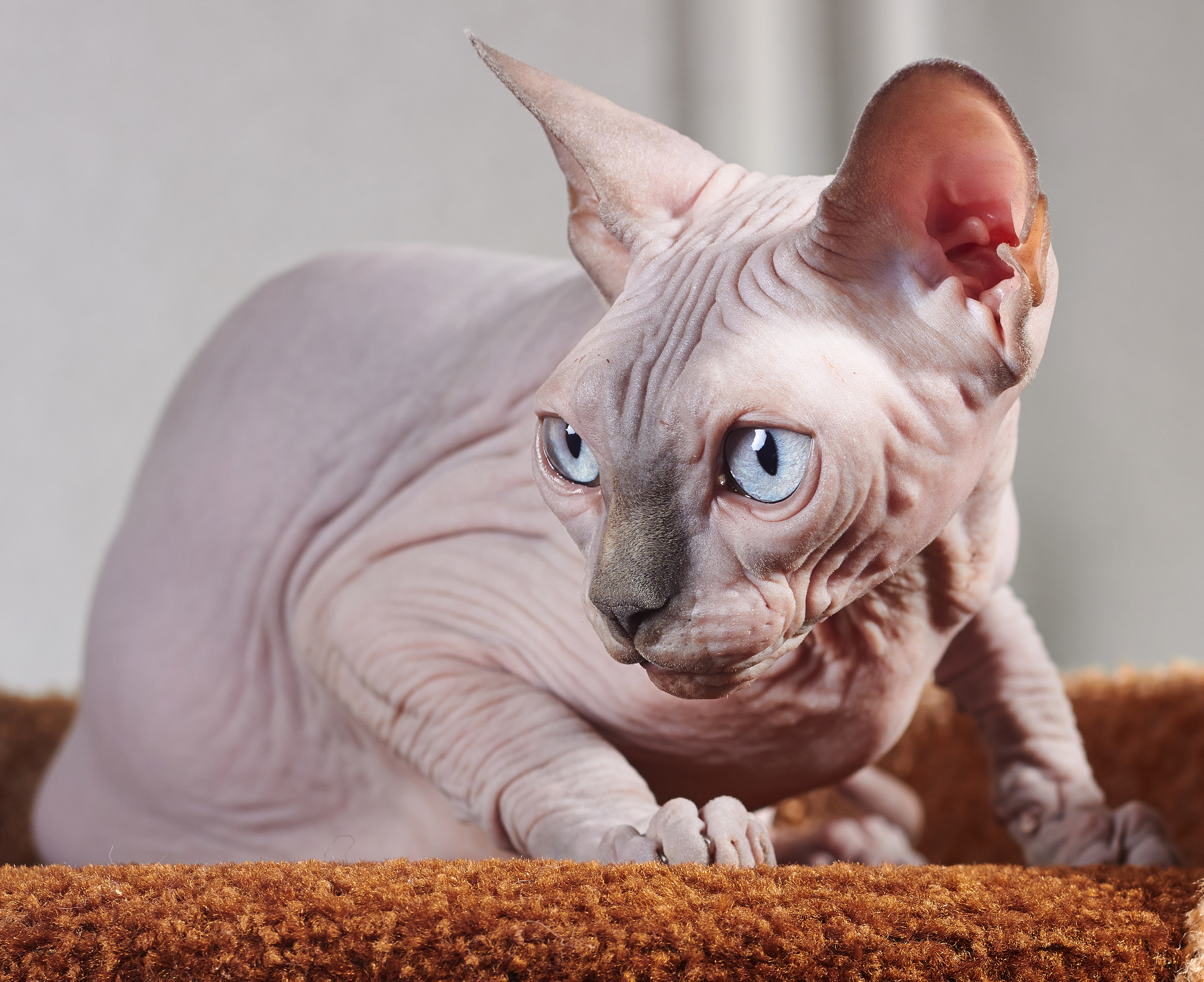 Cat Sphynx.